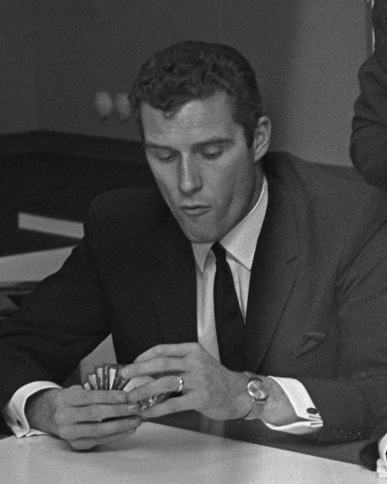 Jim Furnell.